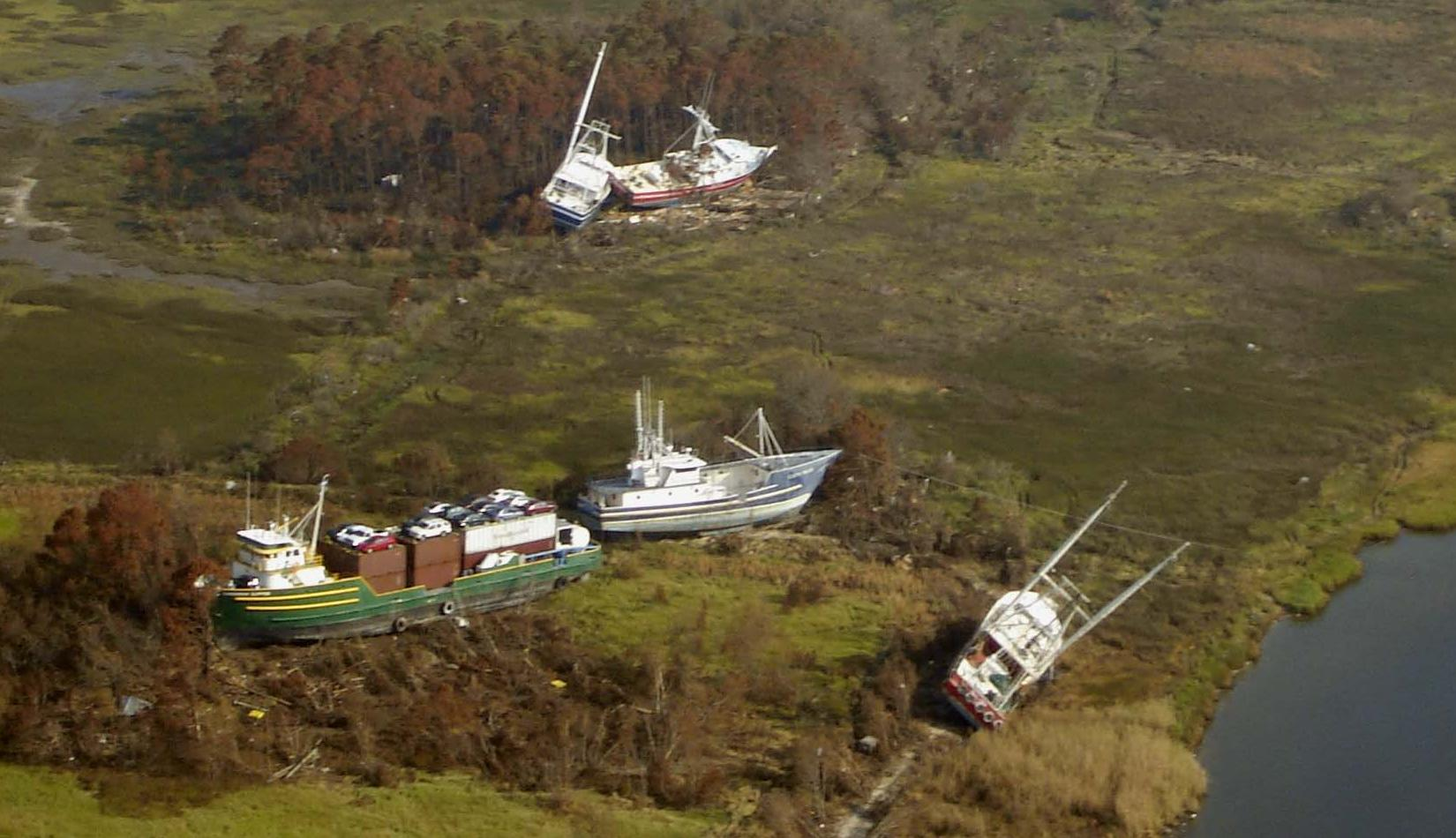 Hurricane Katrina damage in Bayou La Batre, Alabama, showing the cargo ship M/V Caribbean Clipper and 4 fishing boats pushed ashore near the bayou.